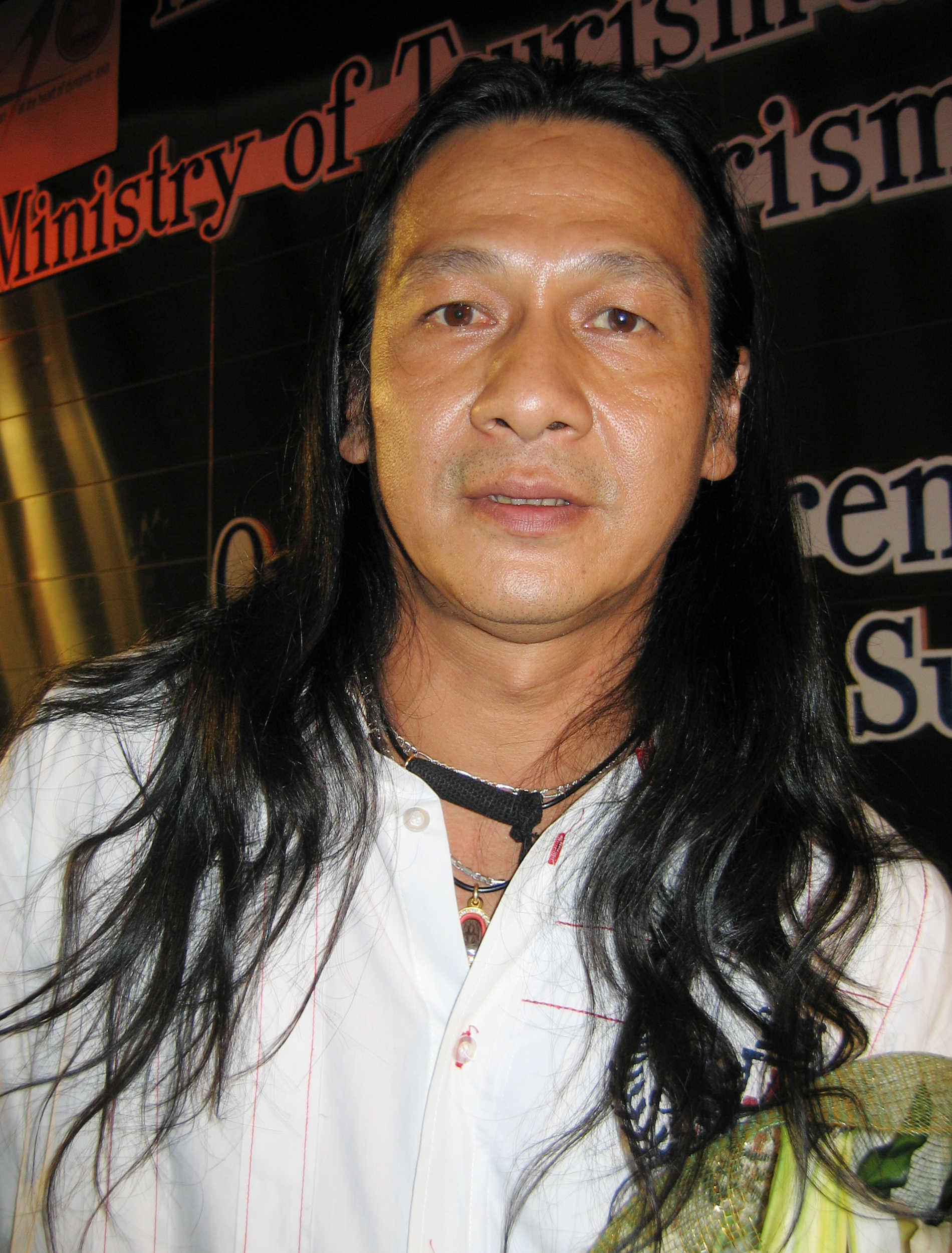 Thai actor, singer and director Pongpat Wachirabunjong at the ASEAN party ahead of the screening of his film, Me ... Myself at the 2007 Bangkok International Film Festival at SF World in CentralWorld, Bangkok.